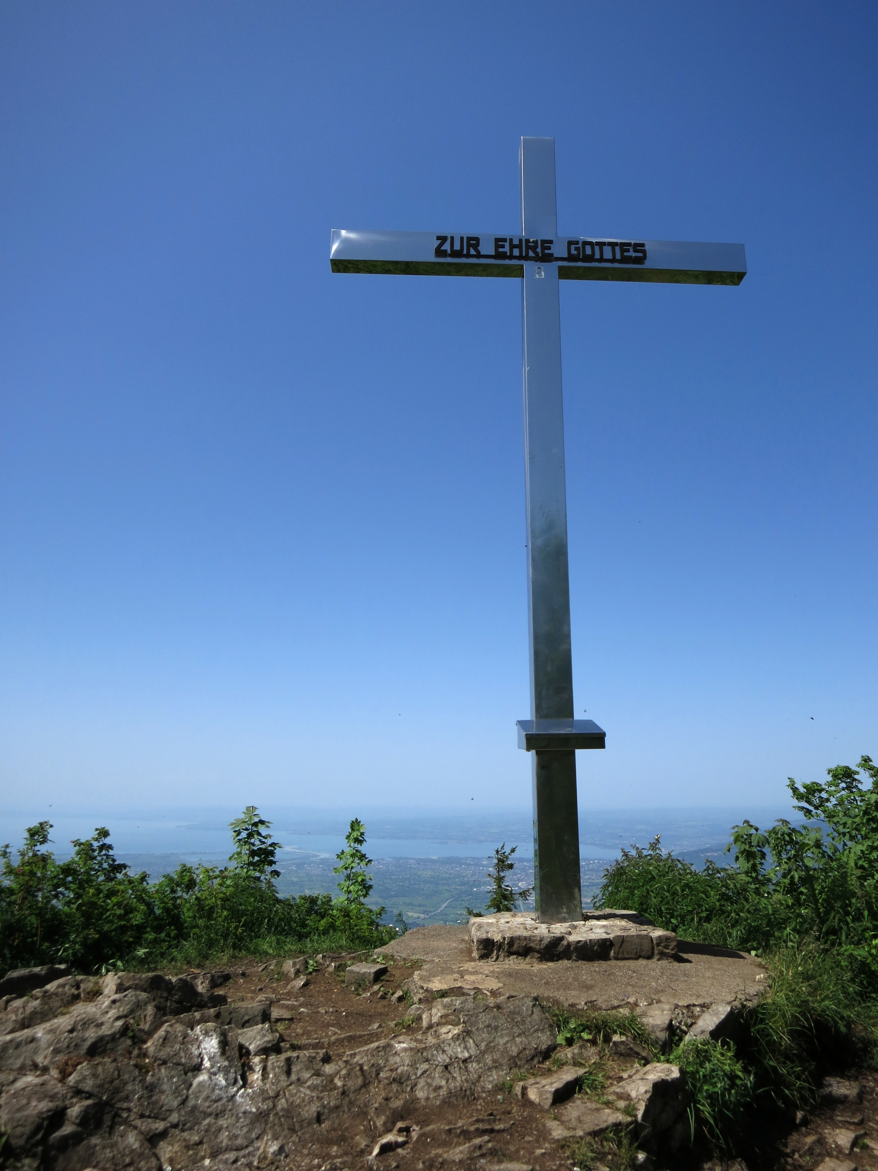 On top of mountain Staufen near Dornbirn, Austria